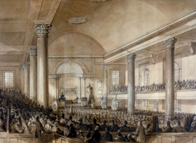 Interior view of Christ Church Cathedral, Montreal.label QS:Len,"Interior view of Christ Church Cathedral, Montreal."label QS:Lfr,"Intérieur de la cathédrale Christ Church, Montréal"